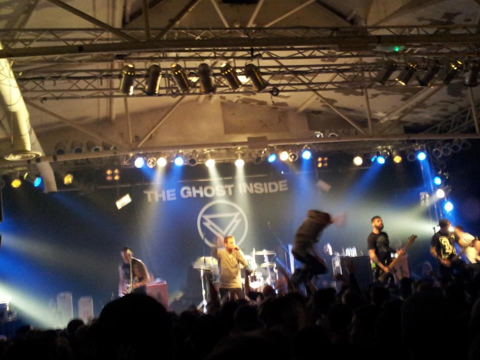 The Ghost Inside live at Essigfabrik Cologne during their co-headline Europe tour with Deez Nuts